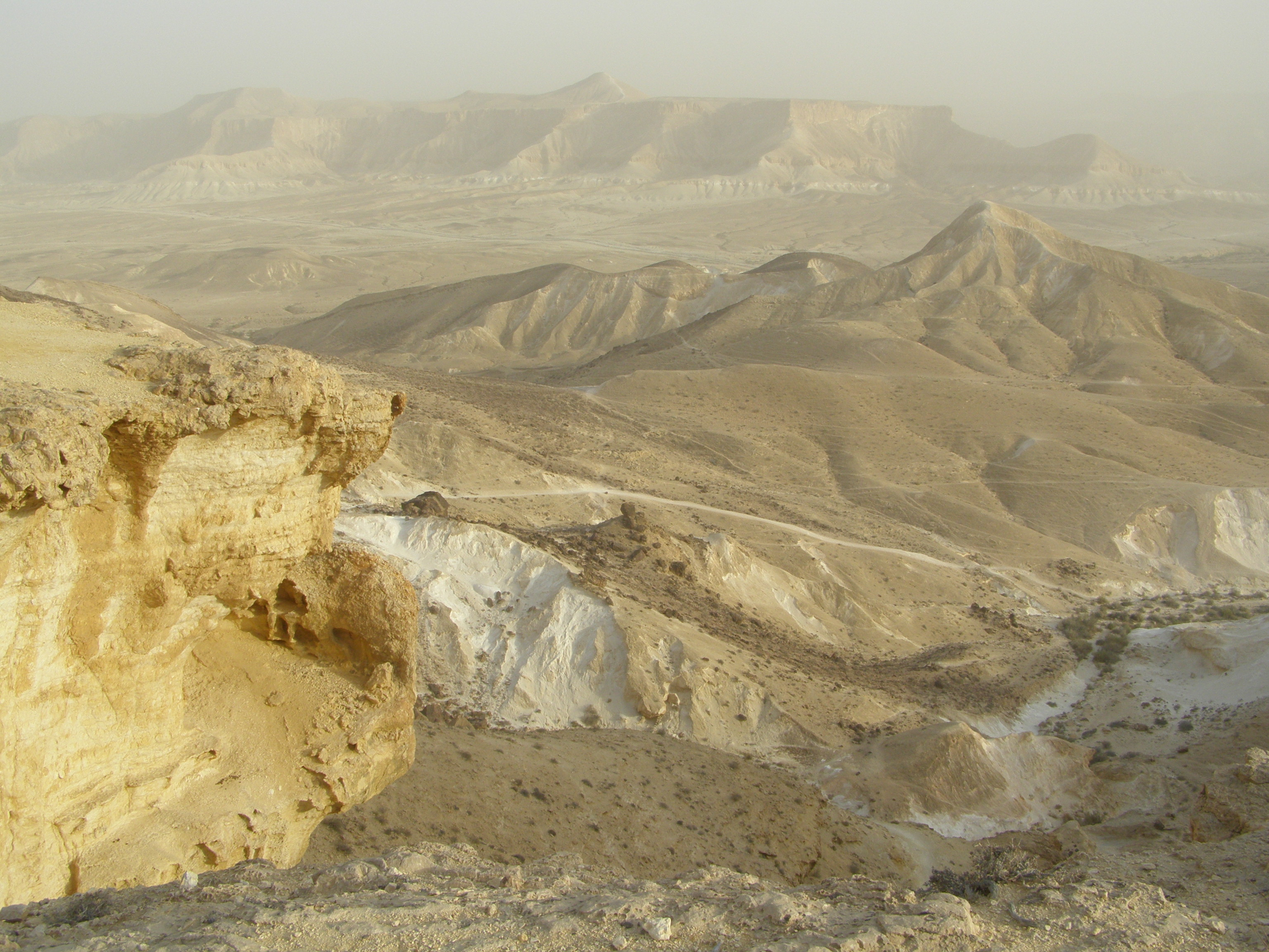 Nahal Zaror, view of Nahal Zin